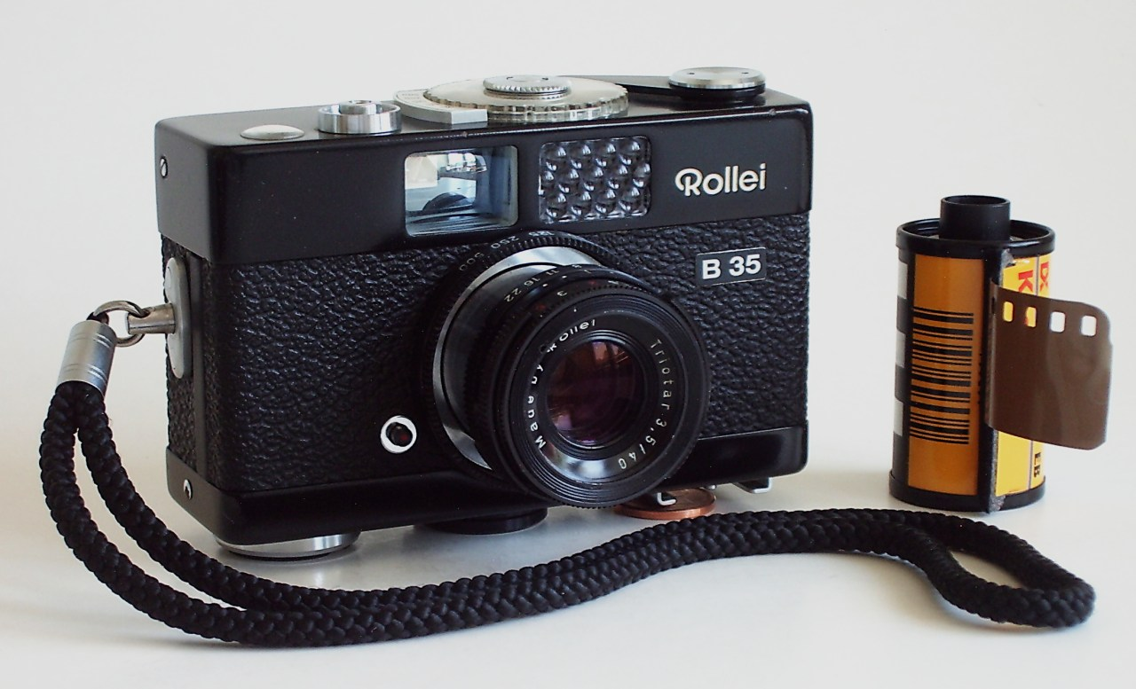 Rollei B 35 black. Compact camera for 35mm-film. Made by Rollei in Singapore.